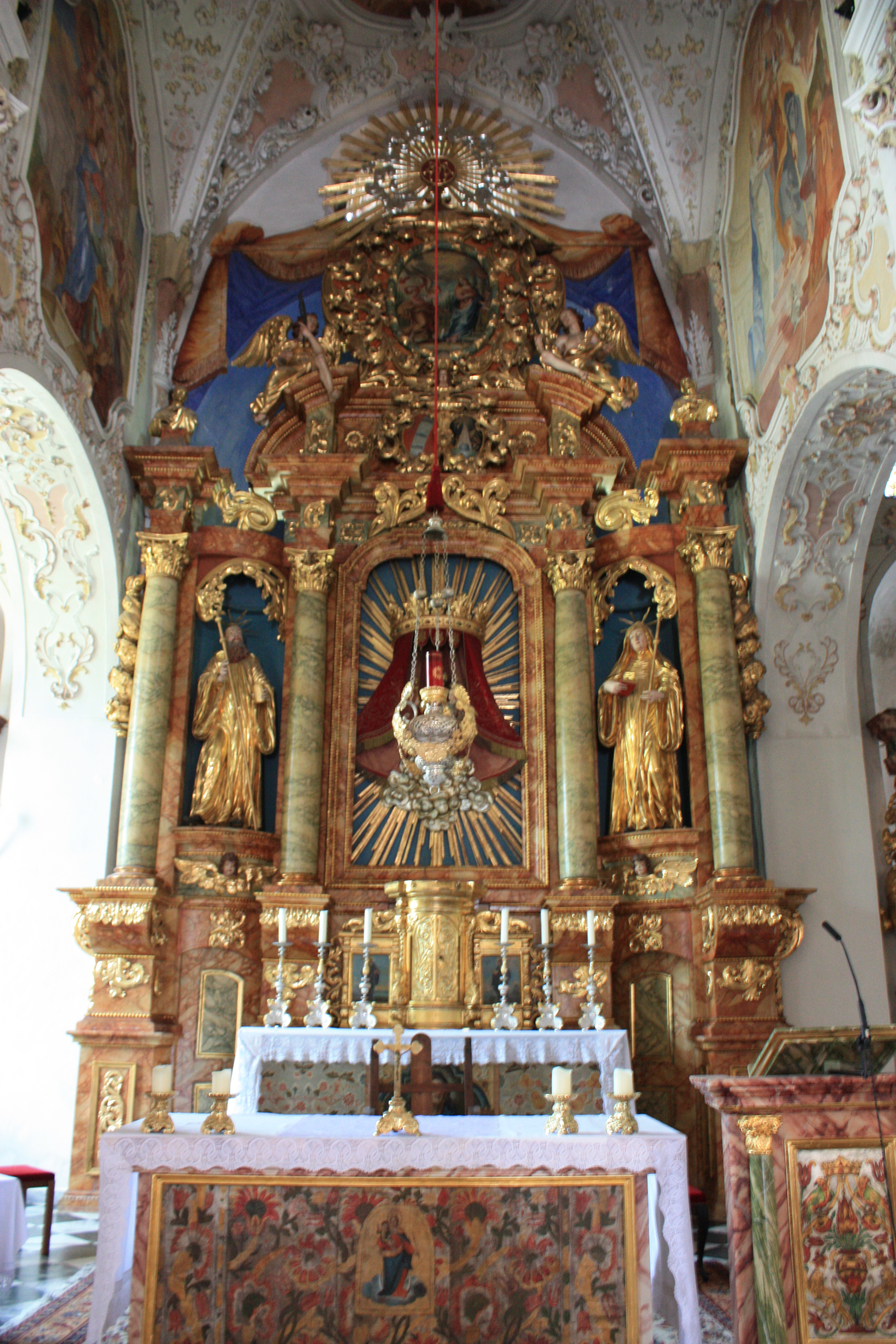 Monastery Ossiach - Church - Main altar Community:Ossiach District:Feldkirchen State:Carinthia Country:Austria